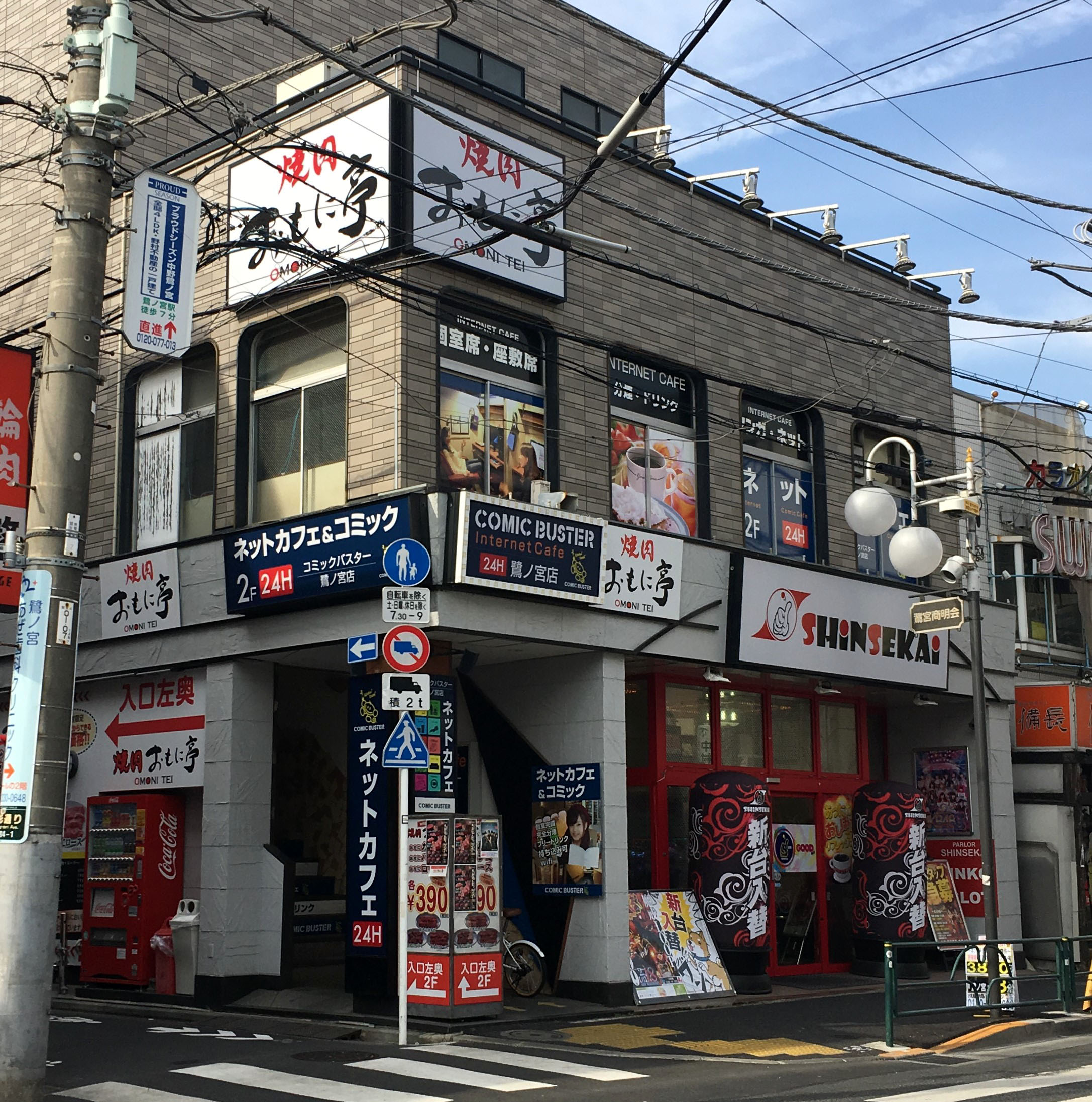 Comic Buster (internet café chain in Japan) Saginomiya branch (Tokyo, Japan)